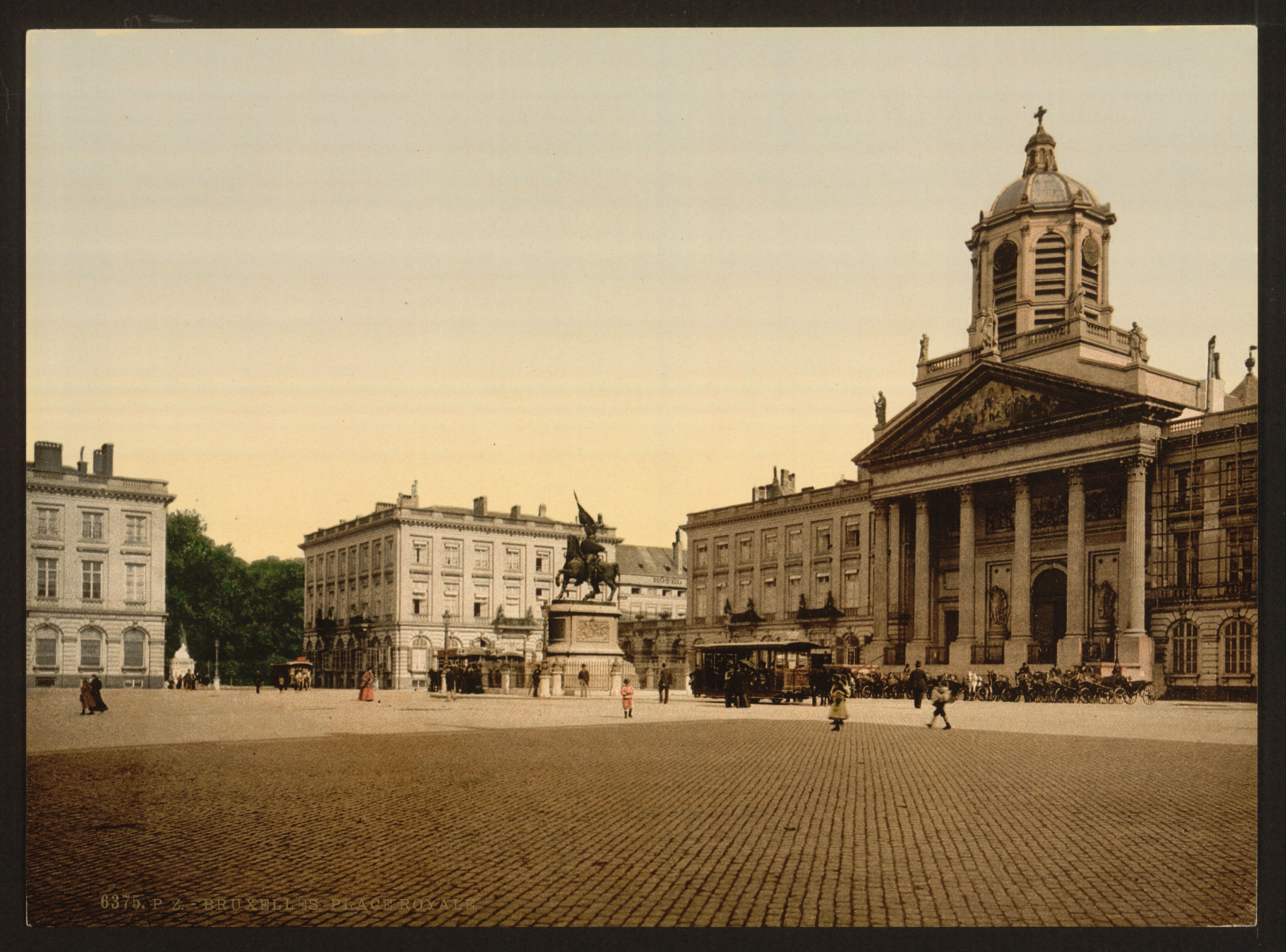 Print shows the Place Royale (Royal Square) with a statue of Godfrey de Bouillon and the Church of St. Jacques-sur-Coudenberg. (Source: Flickr Commons project, 2009)